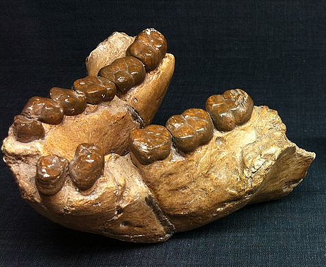 Gairebé humans (in Catalan): Almost humans exhibit at Institut Català de Paleontologia Miquel Crusafont, in Sabadell (Catalonia) 2012-2013: Gigantopithecus giganteus (replica)